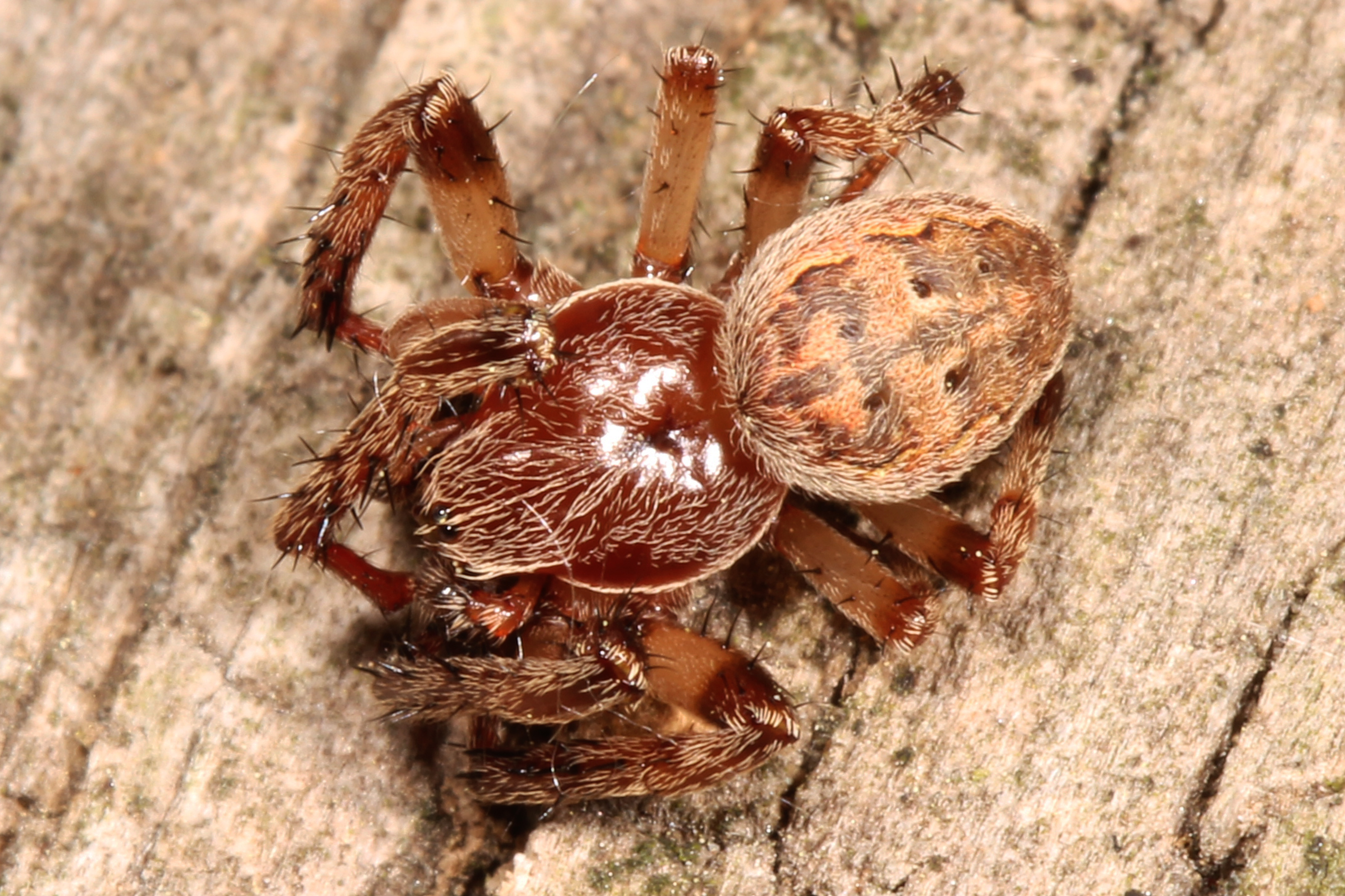 Furrow Spider - Larinioides patagiatus, Leesylvania State Park, Woodbridge, Virginia